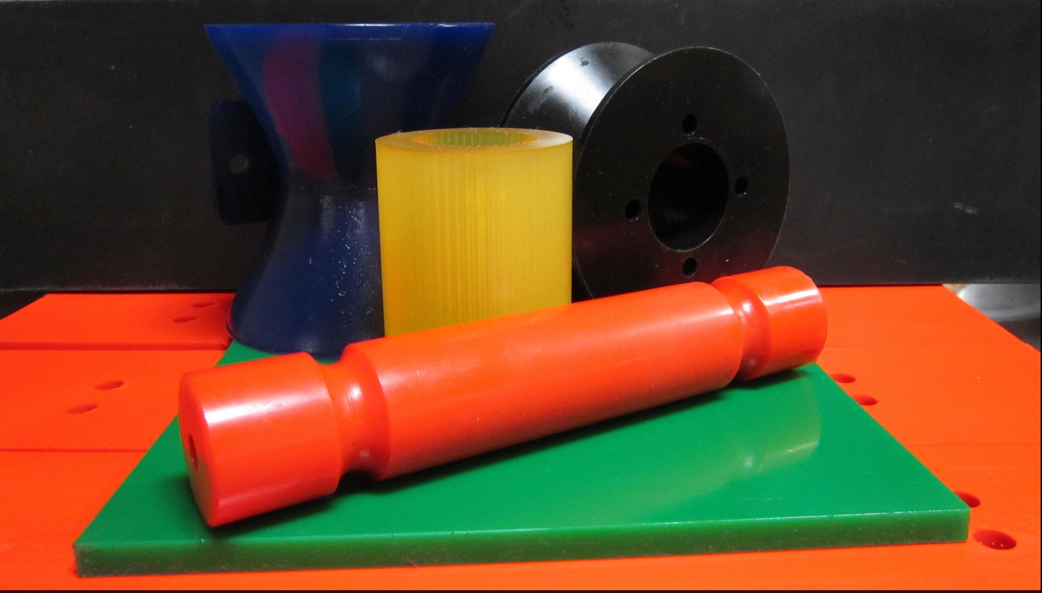 Custom Cast Polyurethane product s